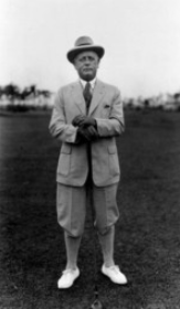 Professional golfer Alex Smith, c. 1913 at the time of his start in the 1913 U.S. Open. Photo probably taken that year or a year or two prior.